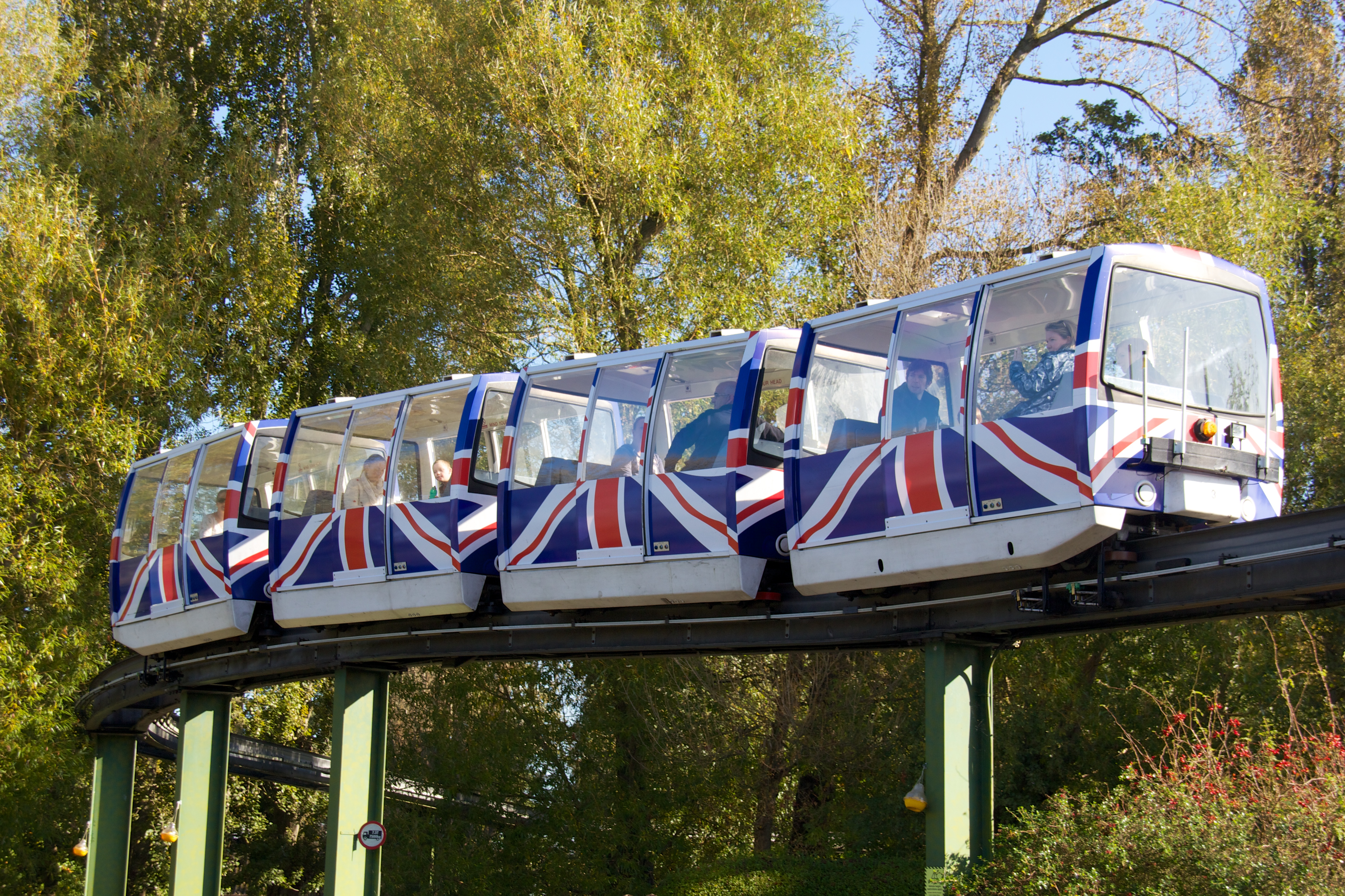 Monorail at Chester Zoo.